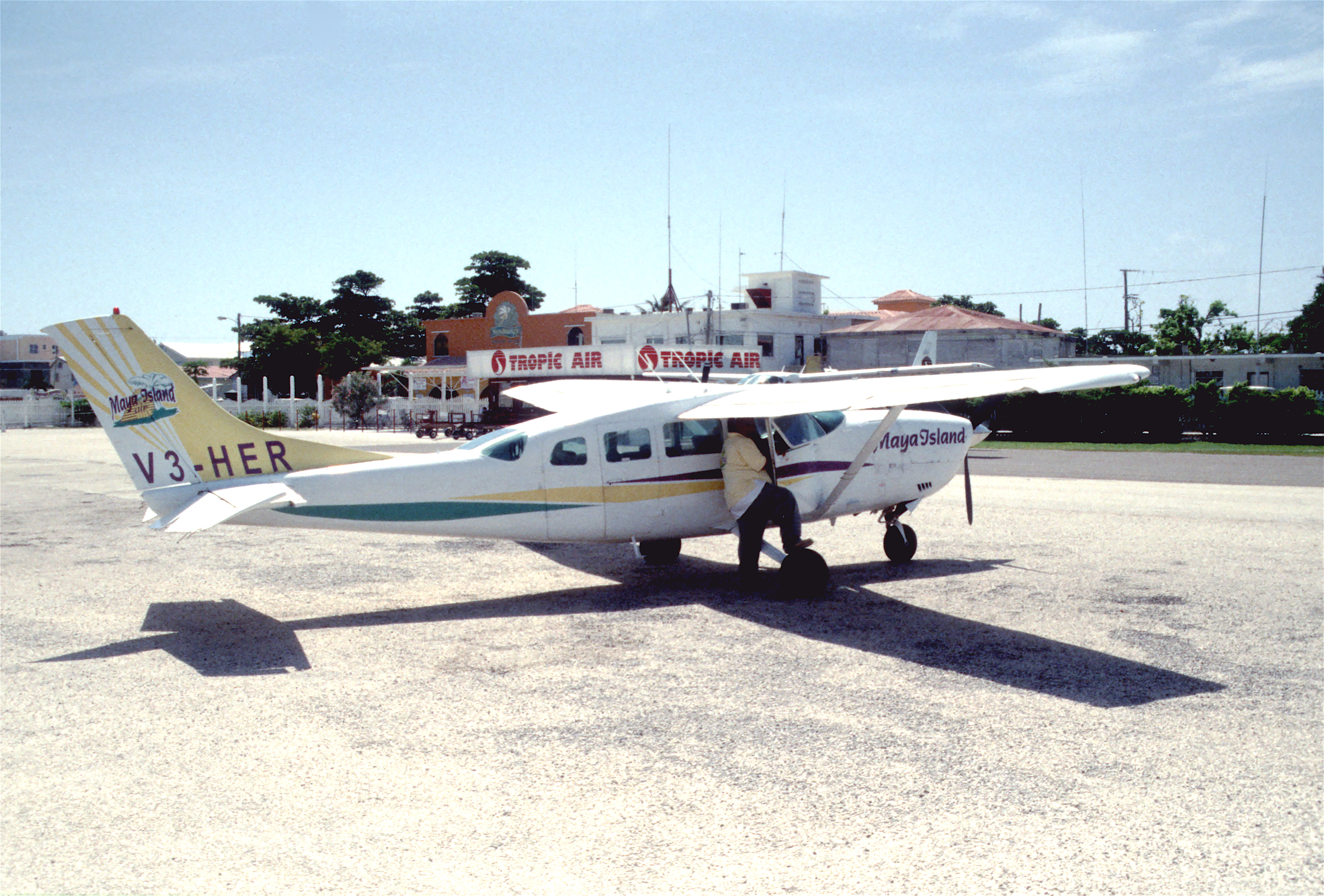 256ac - Maya Island Air Cessna 208B Grand Caravan; V3-HGP@SPR;06.08.2003